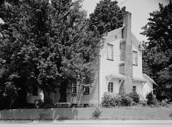 White-Holman House, 209 East Morgan Street, Raleigh (Wake County, North Carolina) cropped This file comes from the Historic American Buildings Survey (HABS), Historic American Engineering Record (HAER) or Historic American Landscapes Survey (HALS). These are programs of the National Park Service established for the purpose of documenting historic places. Records consist of measured drawings, archival photographs, and written reports. When reusing please credit: Library of Congress, Prints & Photographs Division, NC,92-RAL,11-3 This tag does not indicate the copyright status of the attached work. A normal copyright tag is still required. See Commons:Licensing for more information. English | +/− This work is in the public domain in the United States because it is a work prepared by an officer or employee of the United States Government as part of that person’s official duties under the terms of Title 17, Chapter 1, Section 105 of the US Code. See Copyright. Note: This only applies to original works of the Federal Government and not to the work of any individual U.S. state, territory, commonwealth, county, municipality, or any other subdivision. This template also does not apply to postage stamp designs published by the United States Postal Service since 1978. (See 206.02(b) of Compendium II: Copyright Office Practices). It also does not apply to certain US coins; see The US Mint Terms of Use. This file has been identified as being free of known restrictions under copyright law, including all related and neighboring rights. Object location35° 46′ 46″ N, 78° 38′ 11″ W